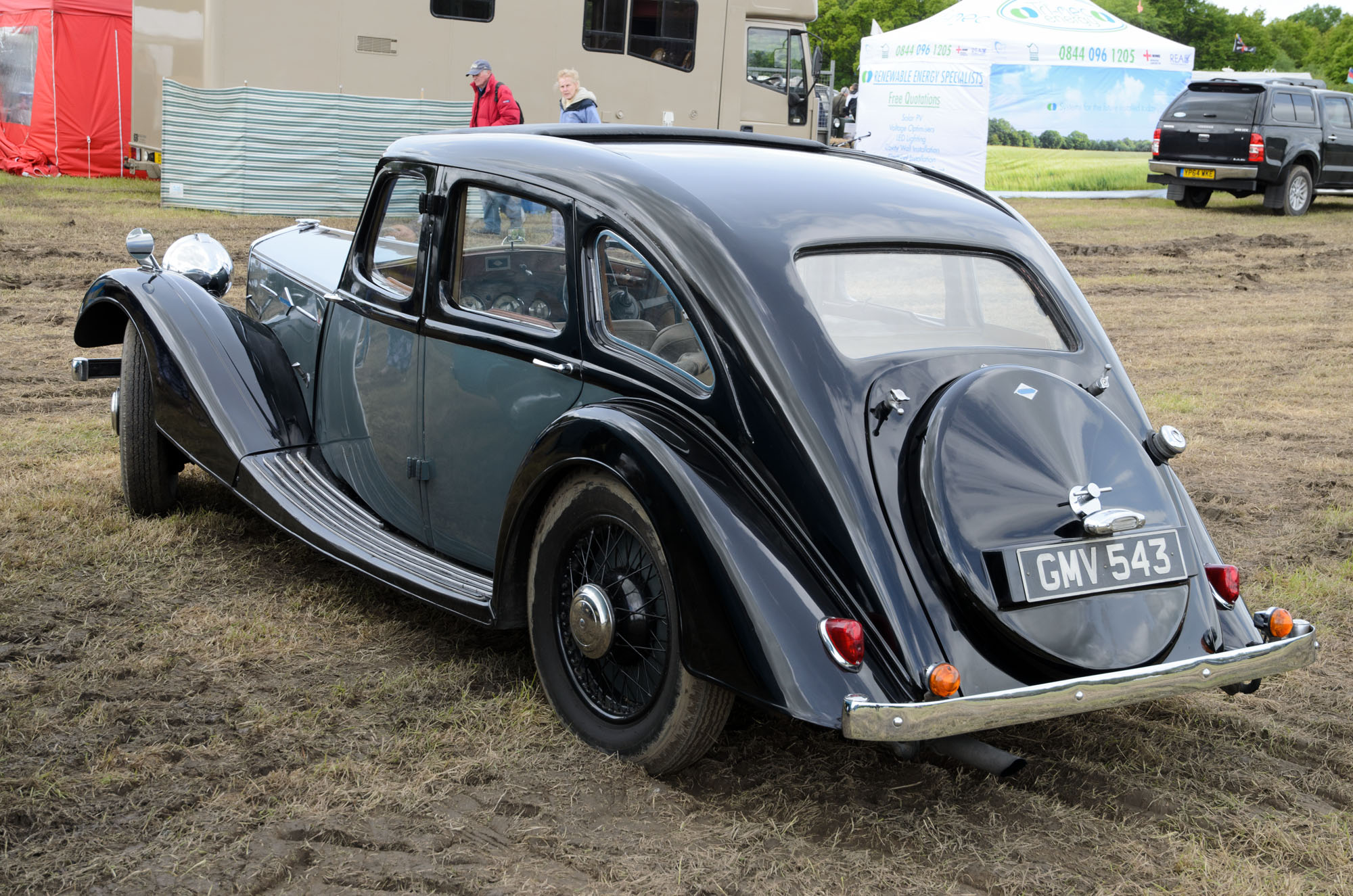 Riley 16/4 Big Four Kestrel 6-Light (1938) (DVLA) first registered 12 January 1938, 2443cc Heskin Hall Steam Fair 30/05/2015